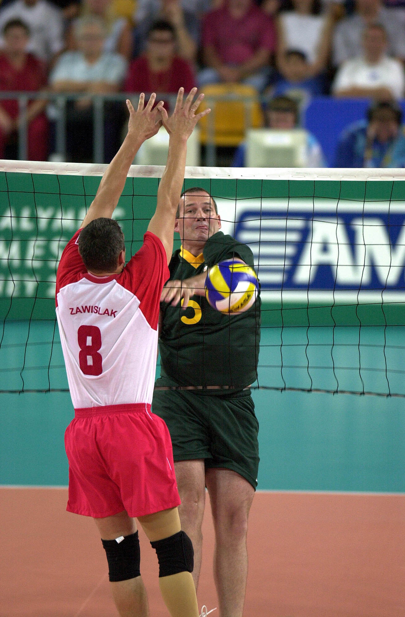 Australian standing volleyball player Greg Hammond spikes during 2000 Sydney Paralympic Games match